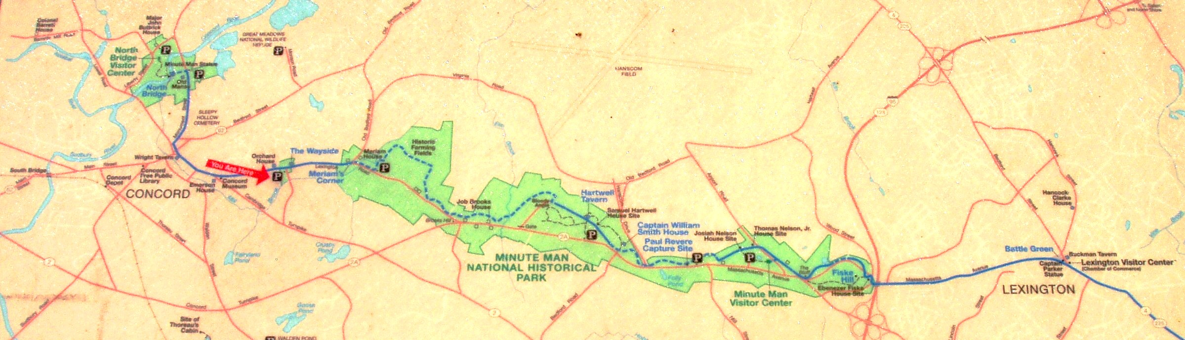 Map of the Minute Man National Historical Park, produced by the US National Park Service.